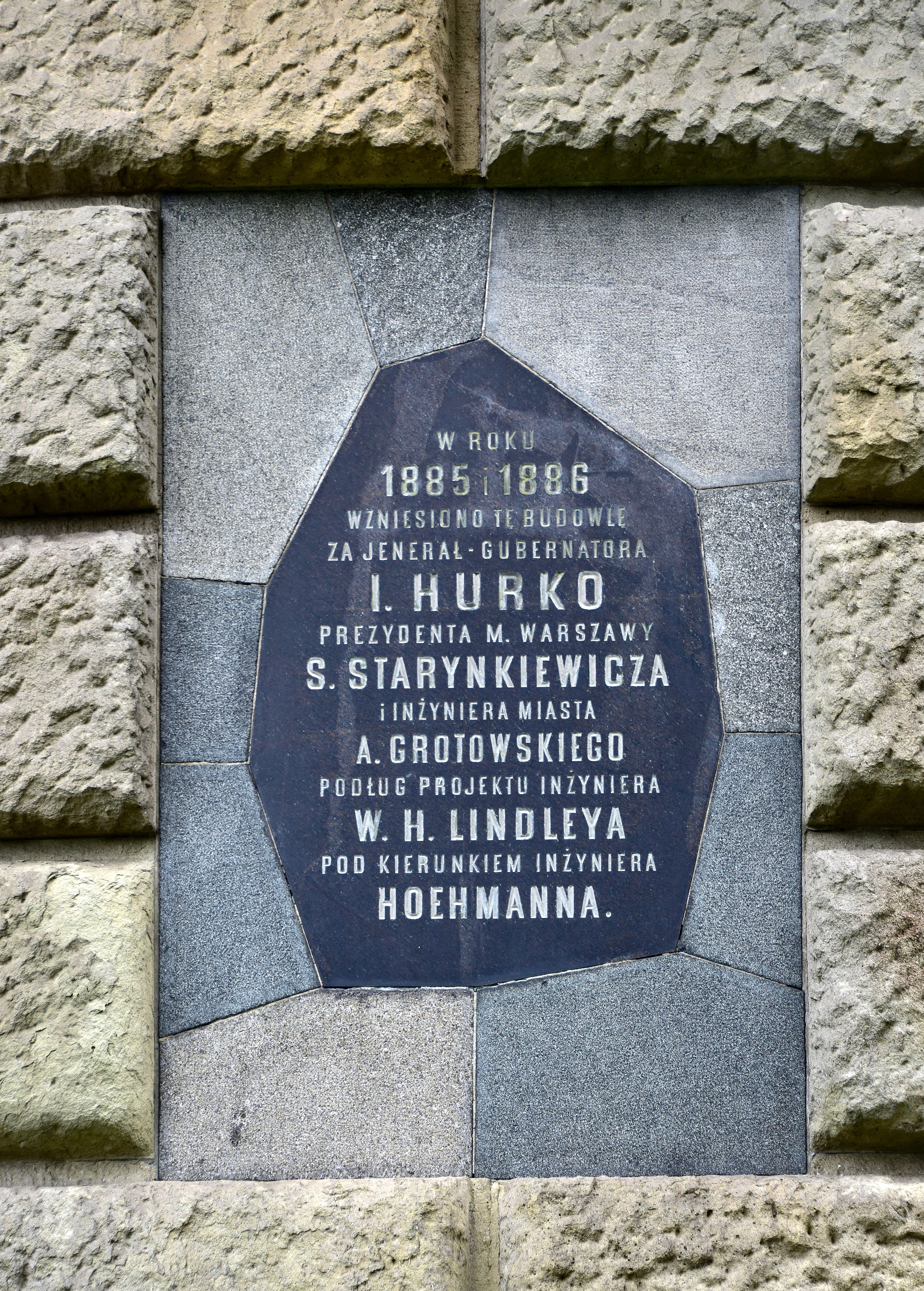 Commemorative plaque on the facade of the water tower, Warsaw Filters complex at 81 Koszykowa Street in Warsaw